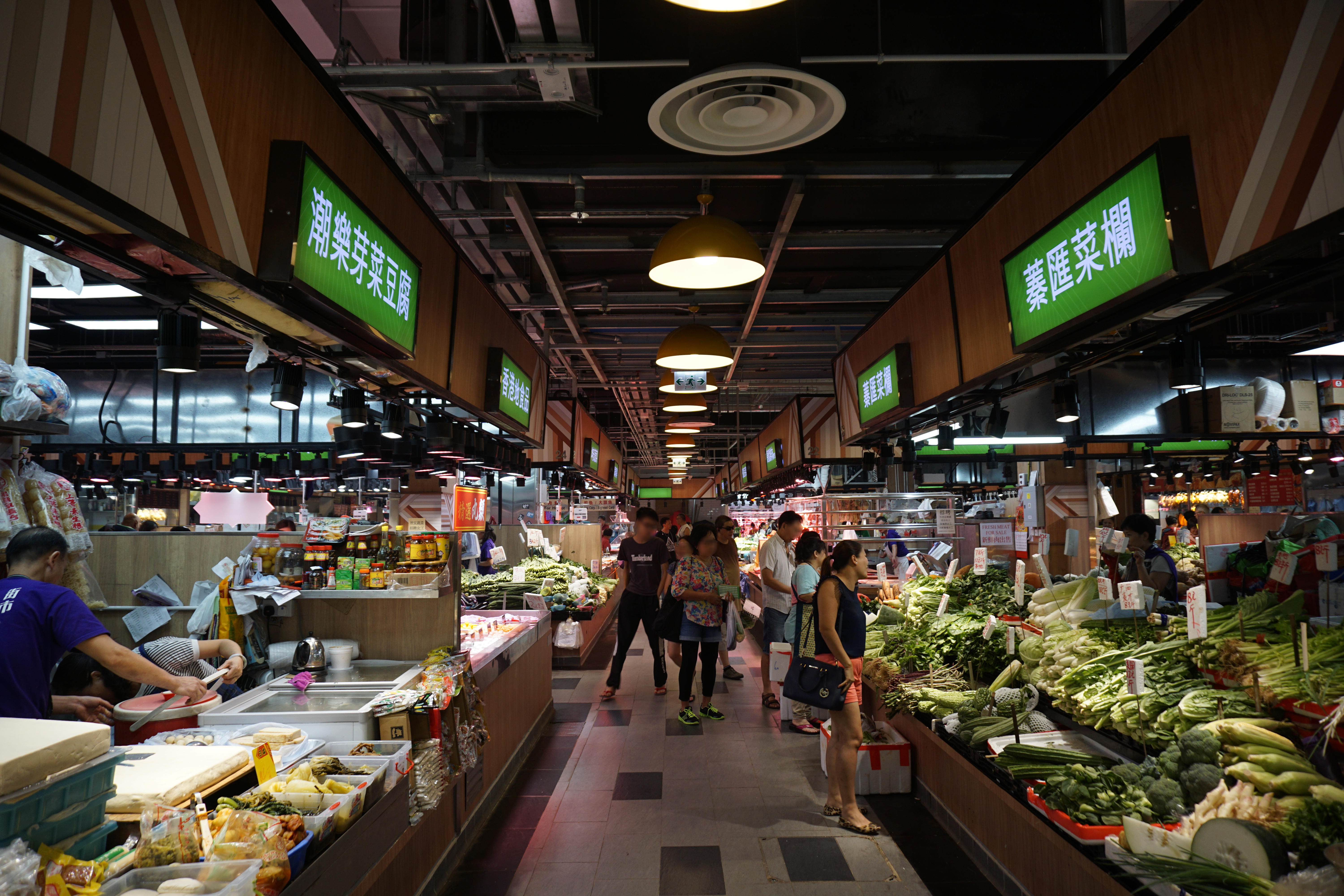 Choi Wan Phase III Market in Ngau Chi Wan, Hong Kong.